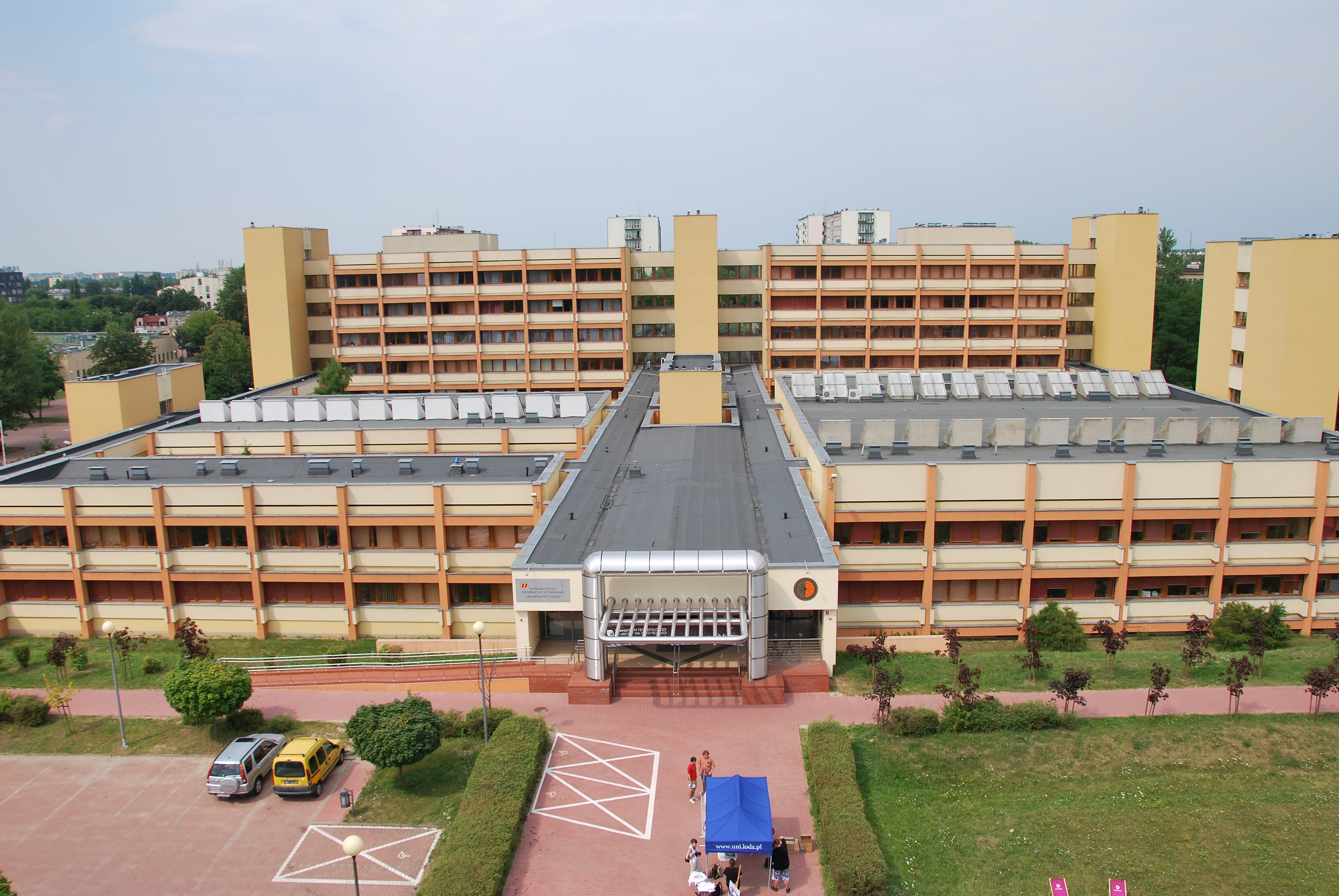 Faculty of Physics, University of Łódź, 149 Pomorska Street